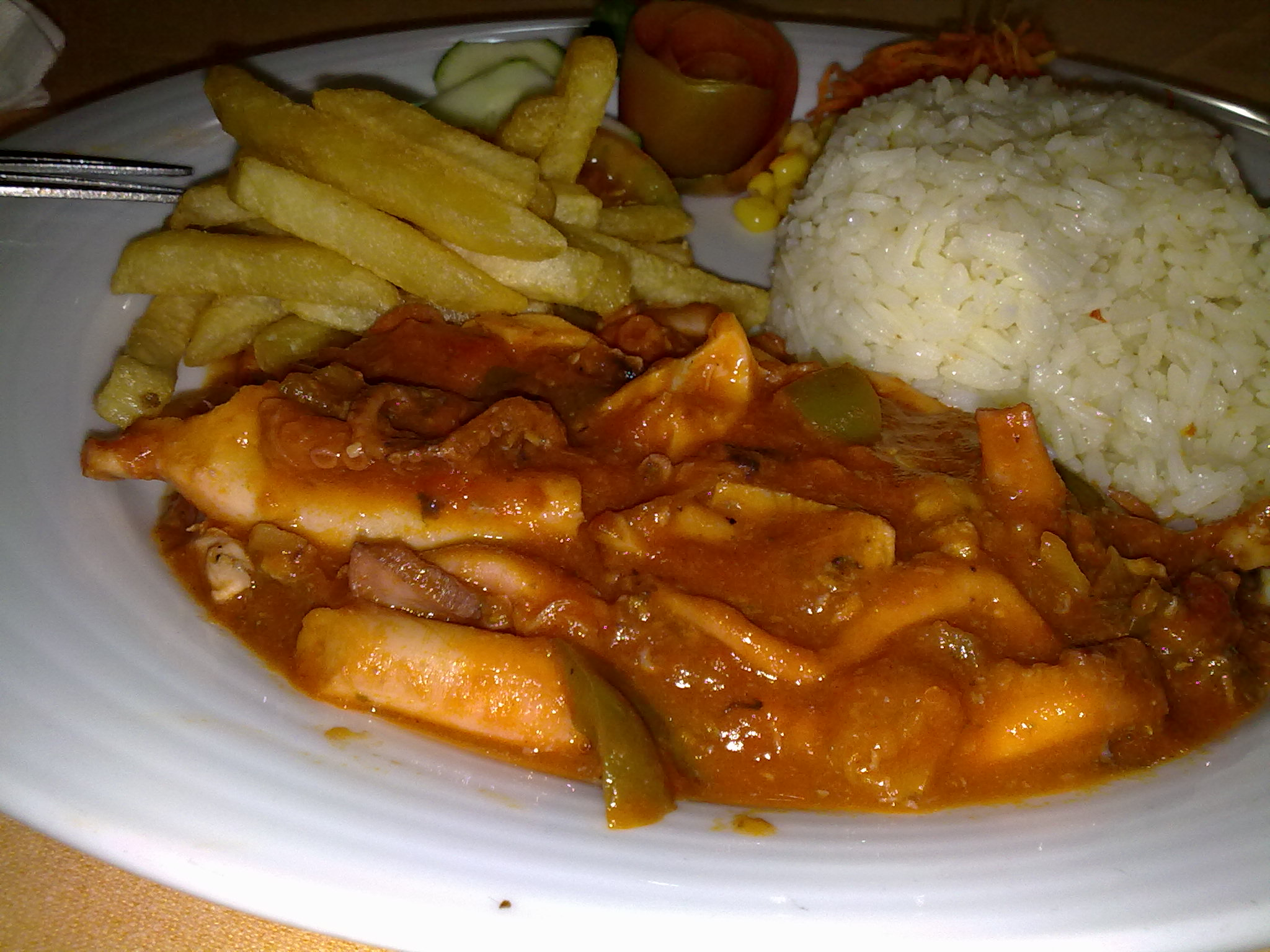 "Bafa de polvo", an octopus dish from Cape Verde.